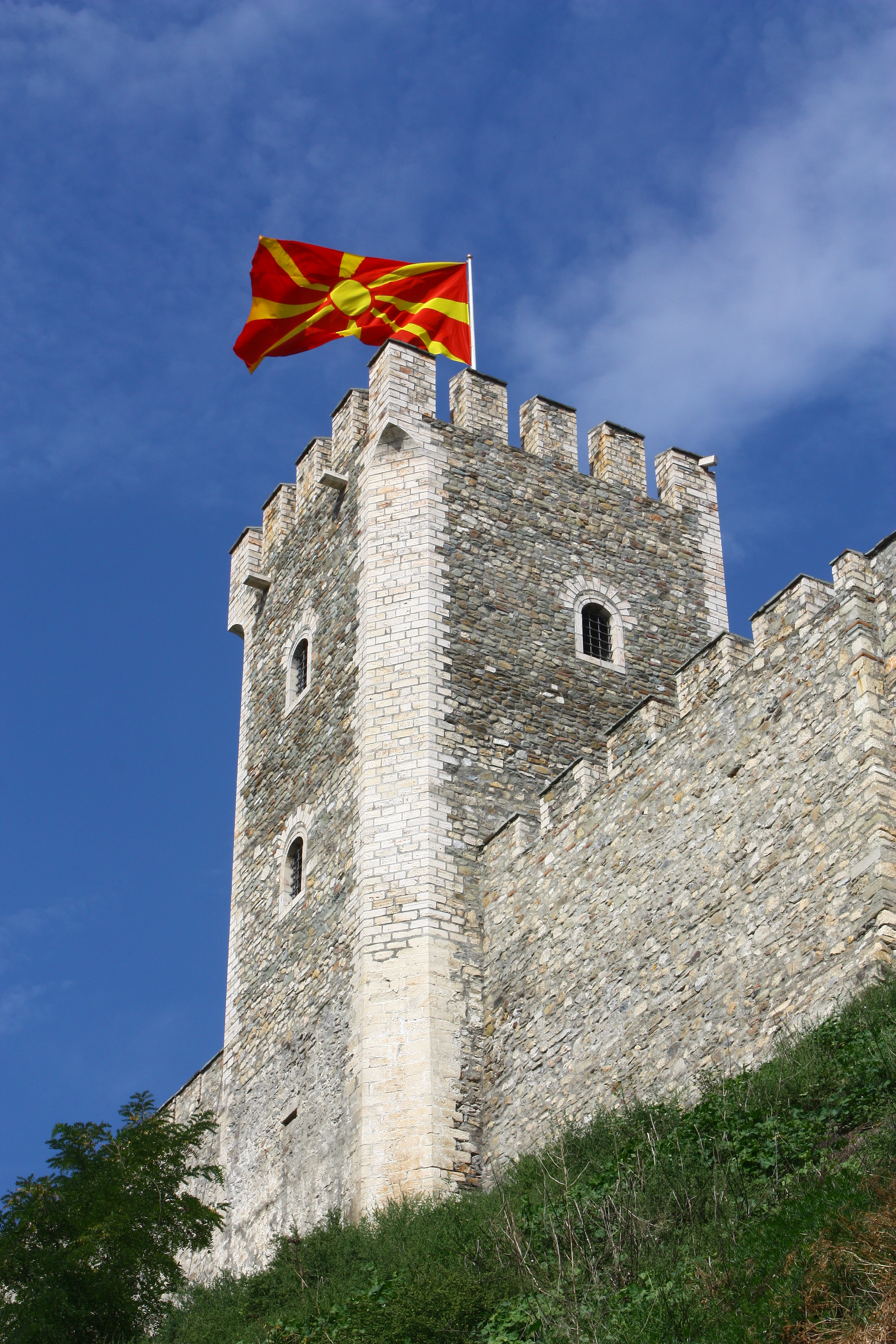 Skopje Fortress, Macedonia Ова е фотографија на споменик на културата во Македонија со типски код: E02This is a a photo of a cultural monument in North Macedonia with type id: E02